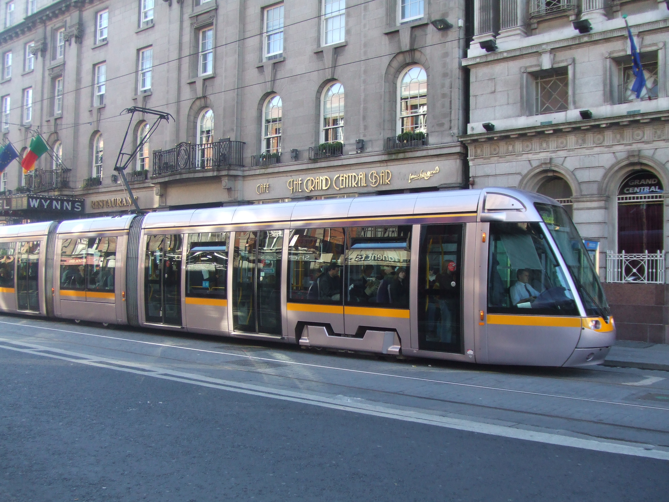 dublin light railway